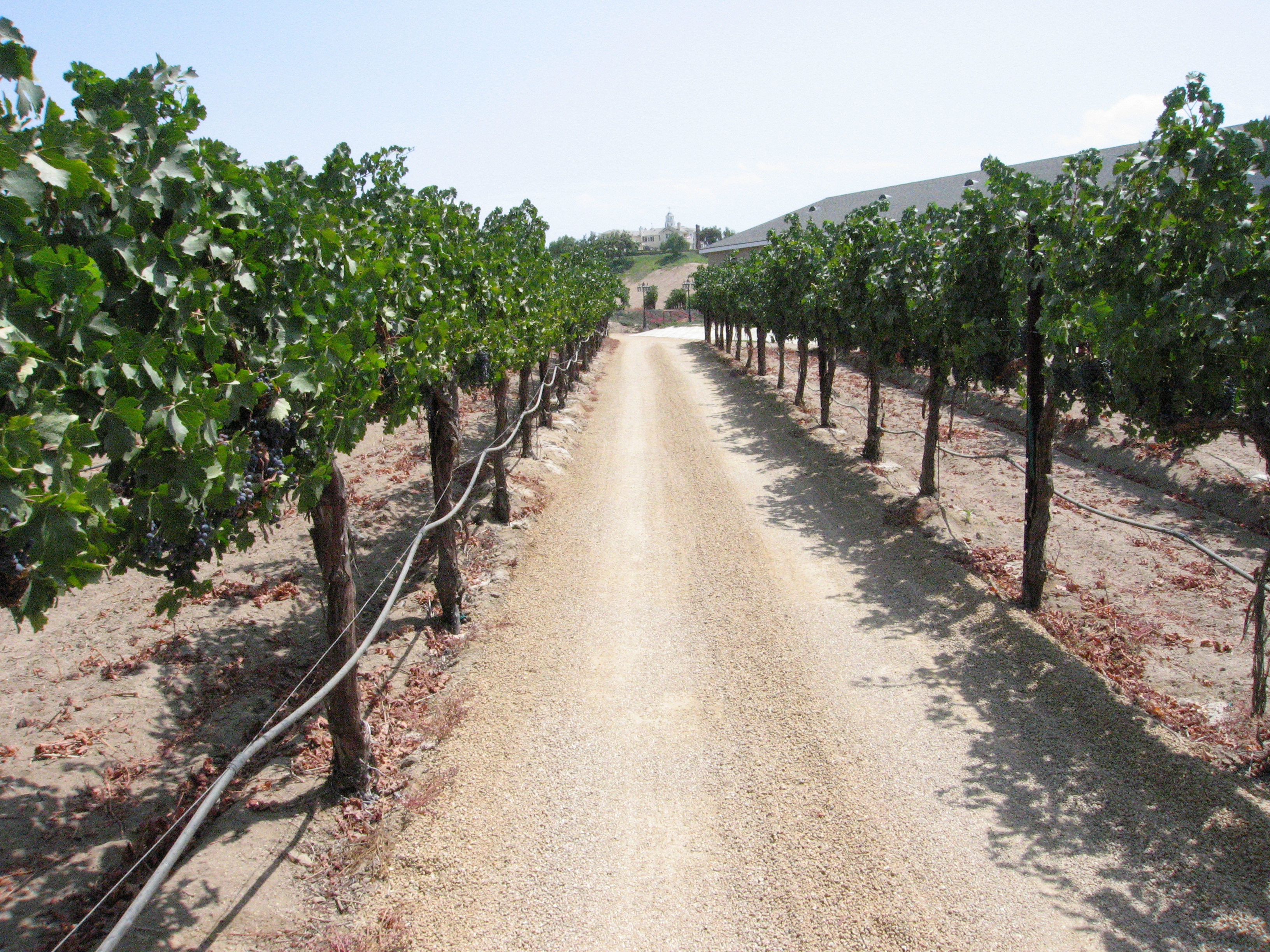 Temecula vineyard in California